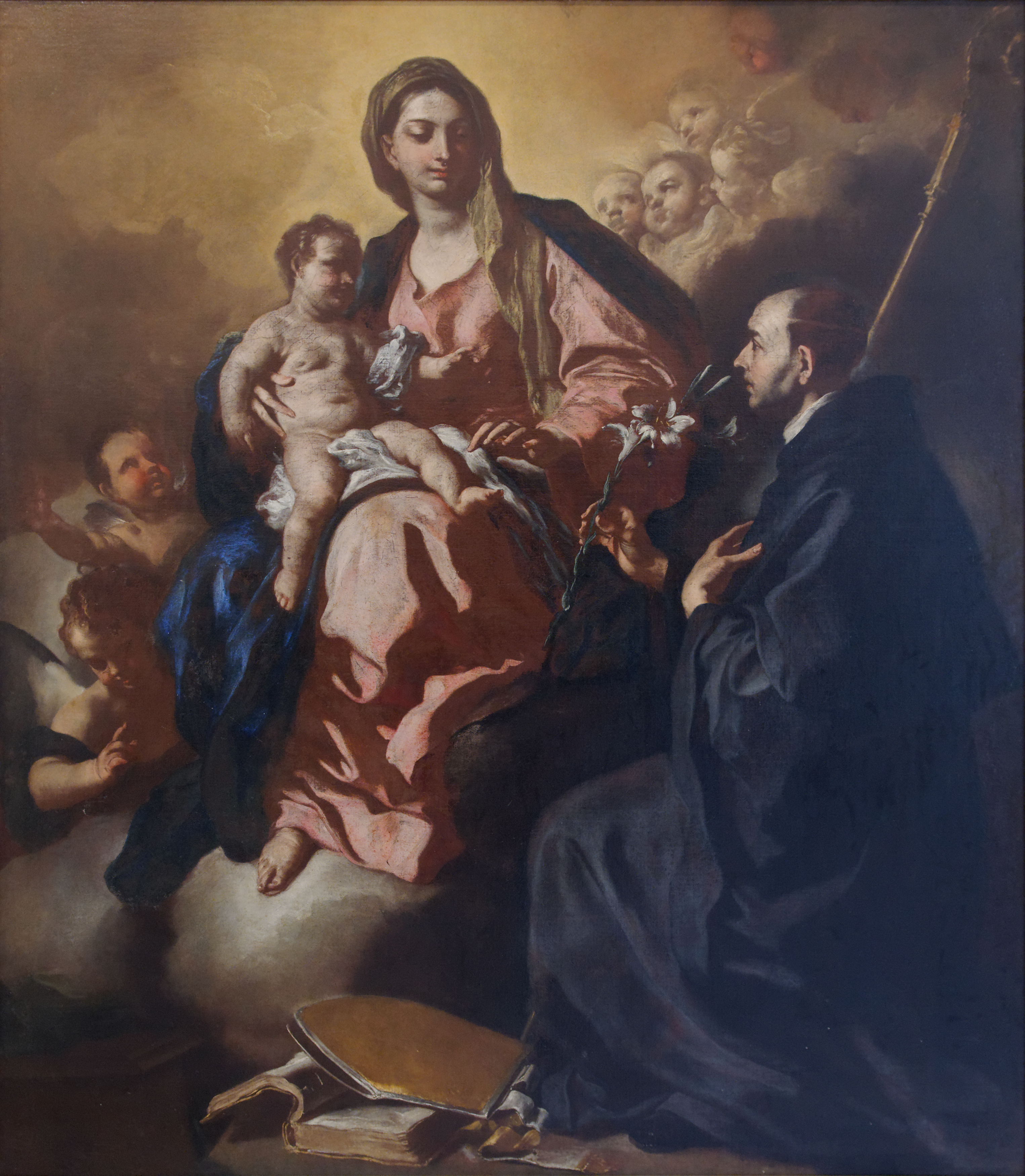 Madonna and Child with St Maurus.